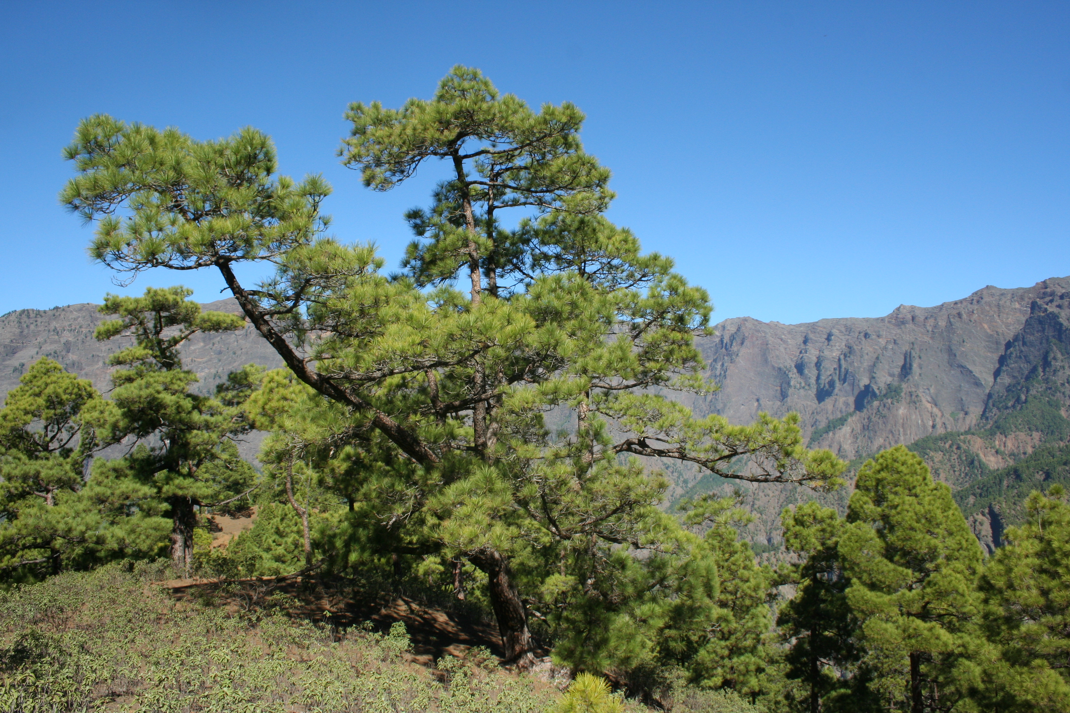 Pinus canariensis near Mirador Lomo de las Chozas in part of the Caldera de Taburiente on La Palma, Canary Islands